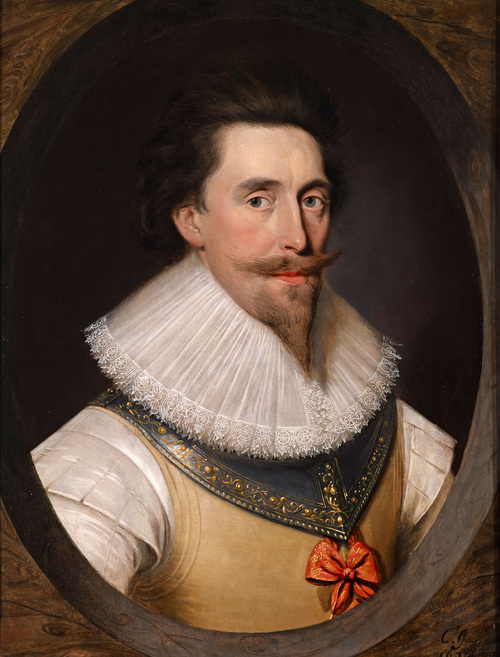 Portrait of Frances Fane 1st Earl of Westmorland (1580-1629)